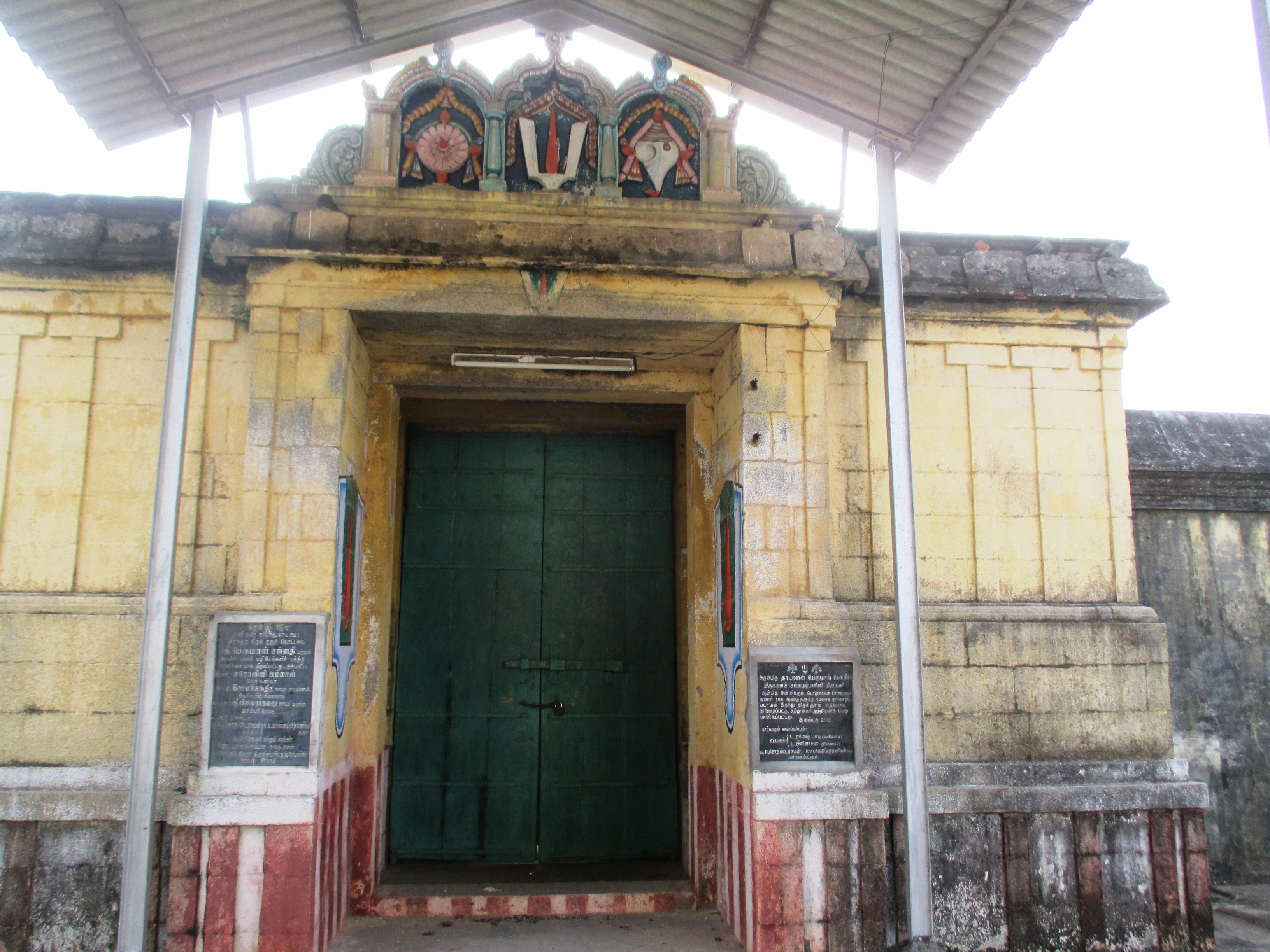 Thadalan Kovil